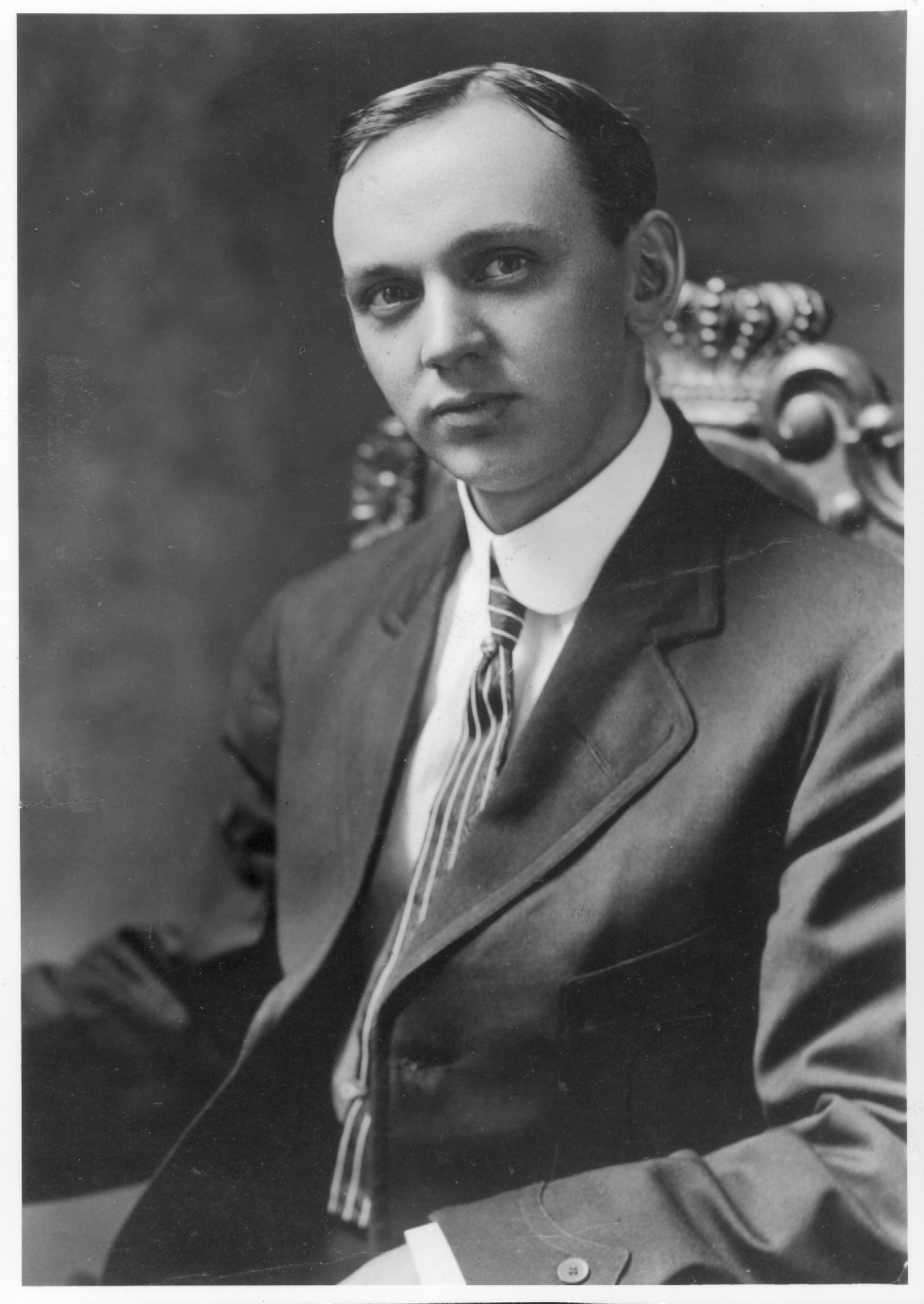 Edgar Cayce in October 1910, when this photograph appeared on the front page of The New York Times.